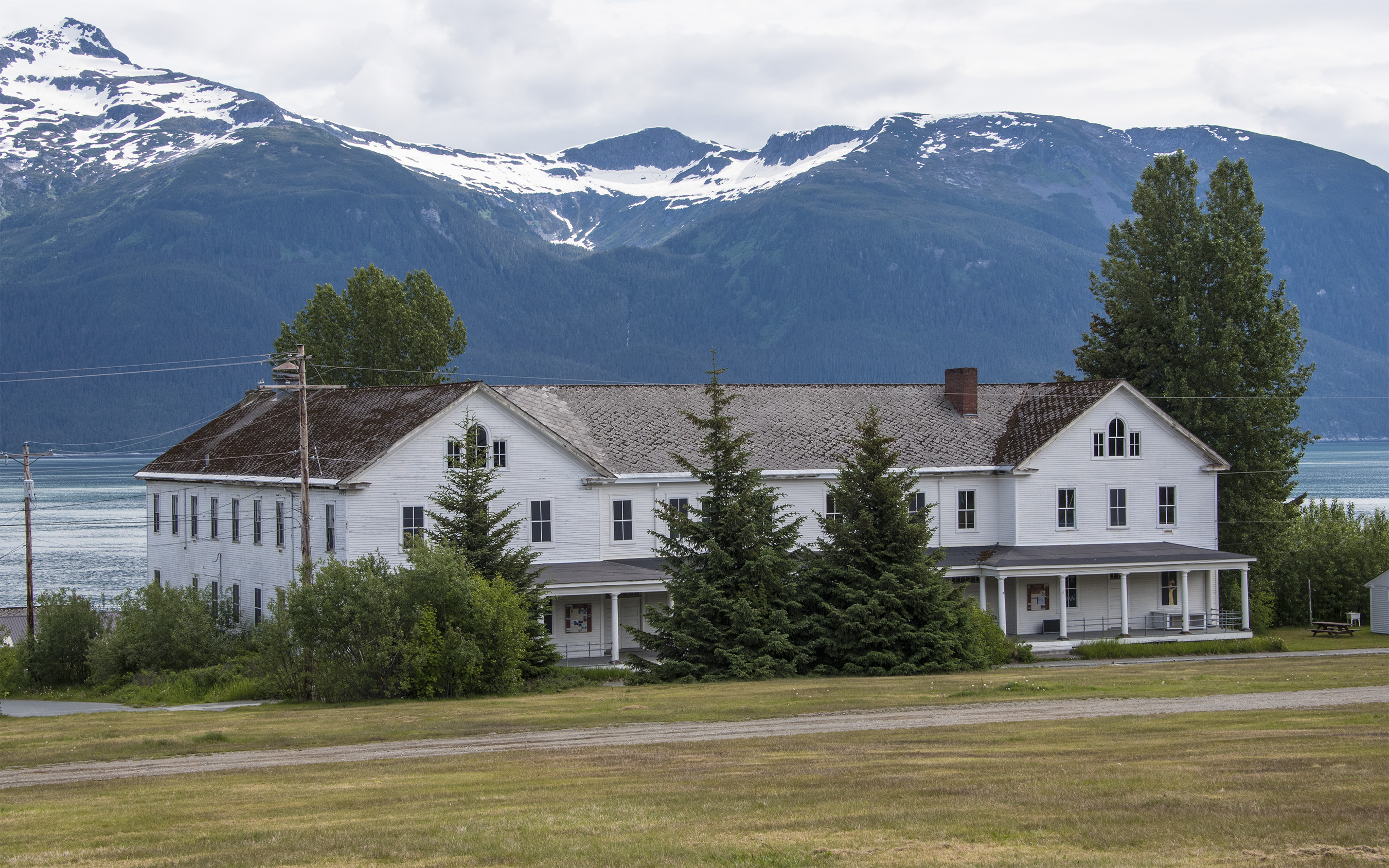 Fort William F. Seward, Haines, Southeast Alaska.